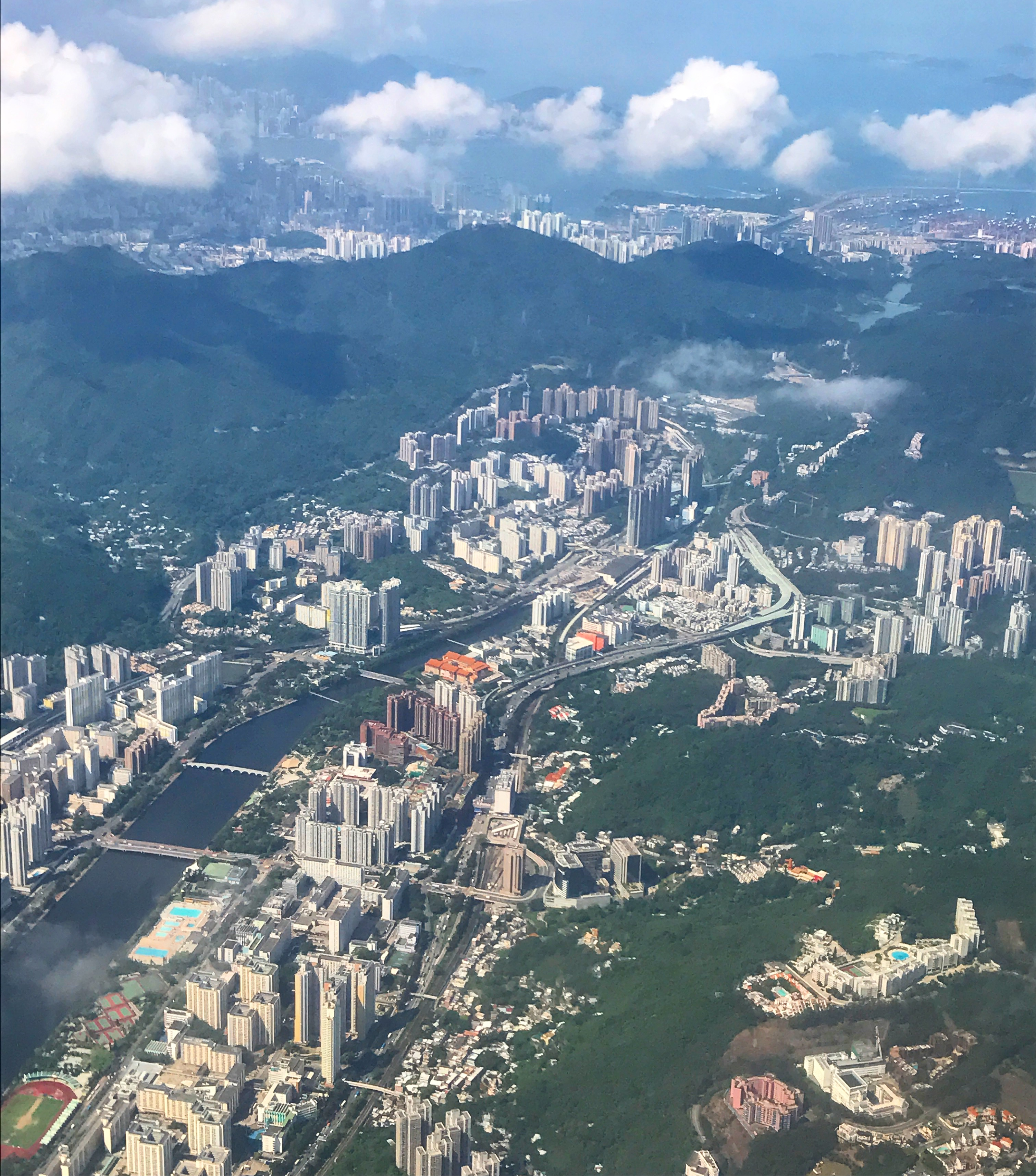 Tai Wai aerial overview